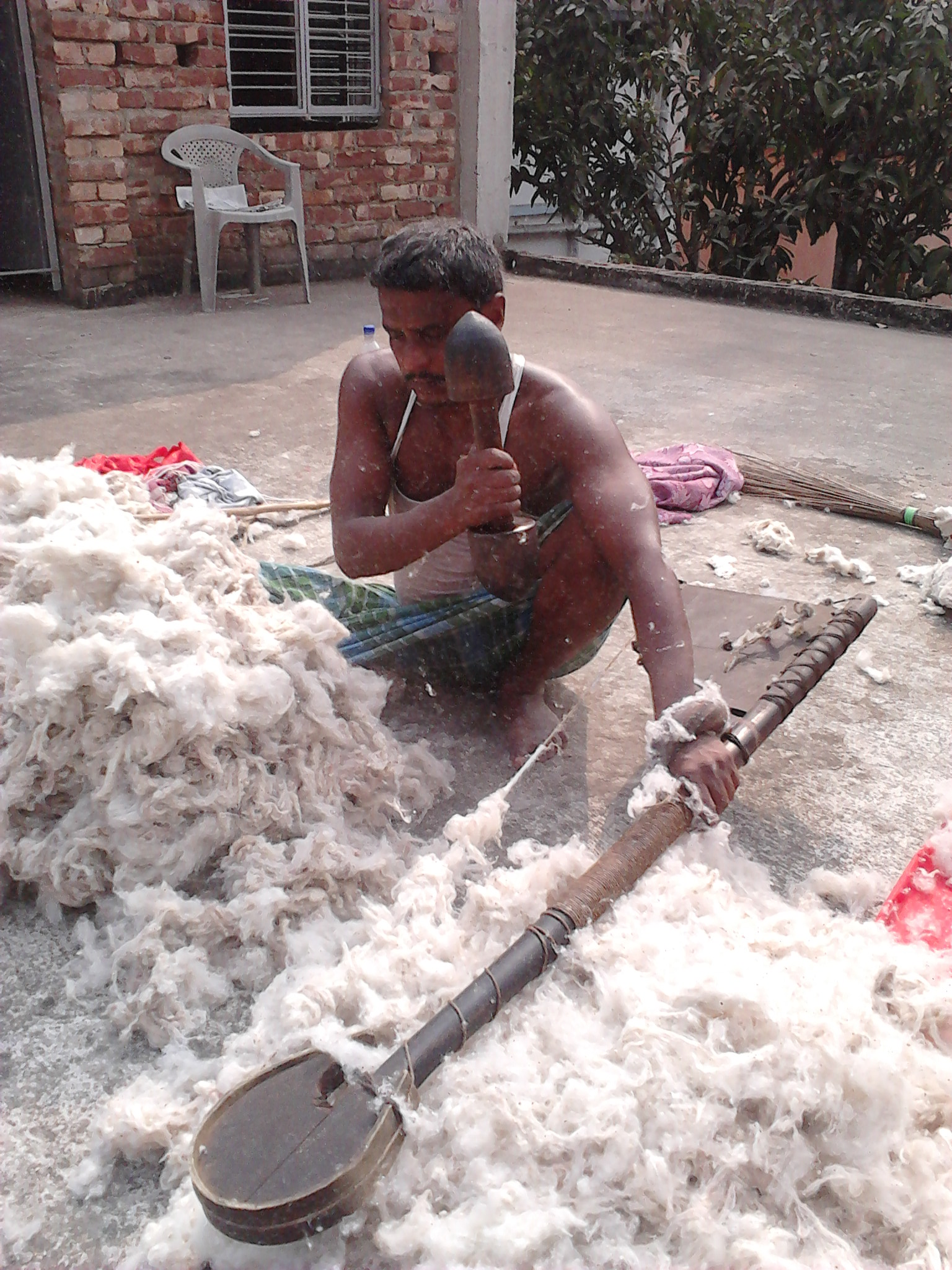 Muhammad Ainul from Chapra district of Bihar. He lives in Howrah for last 20 years. He is Dhunuri (in Hindi) or cotton carder. He is a traditional cotton quilts and pillows mender.